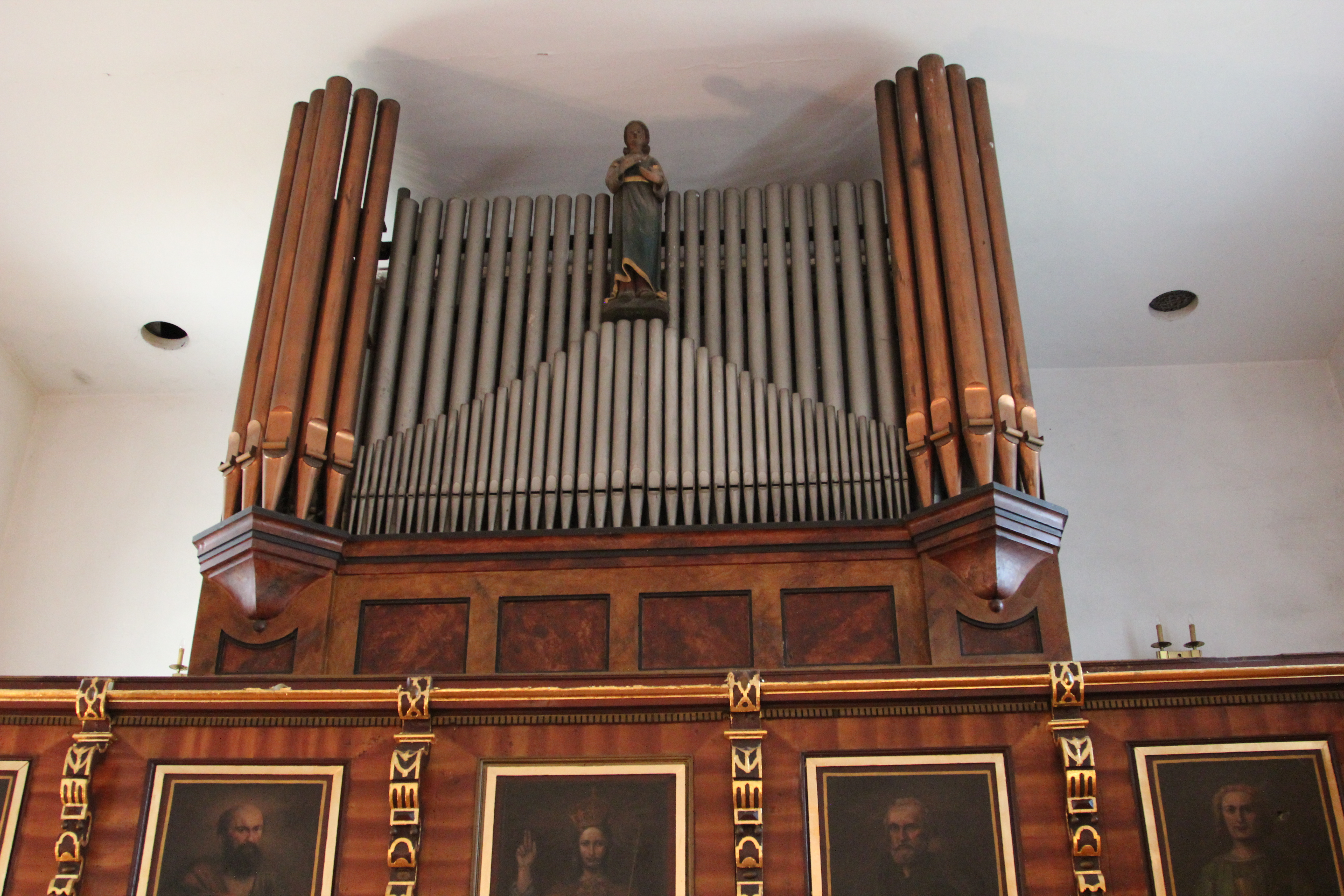 Saint Joseph church in Lutynia, Środa Śląska County, organ